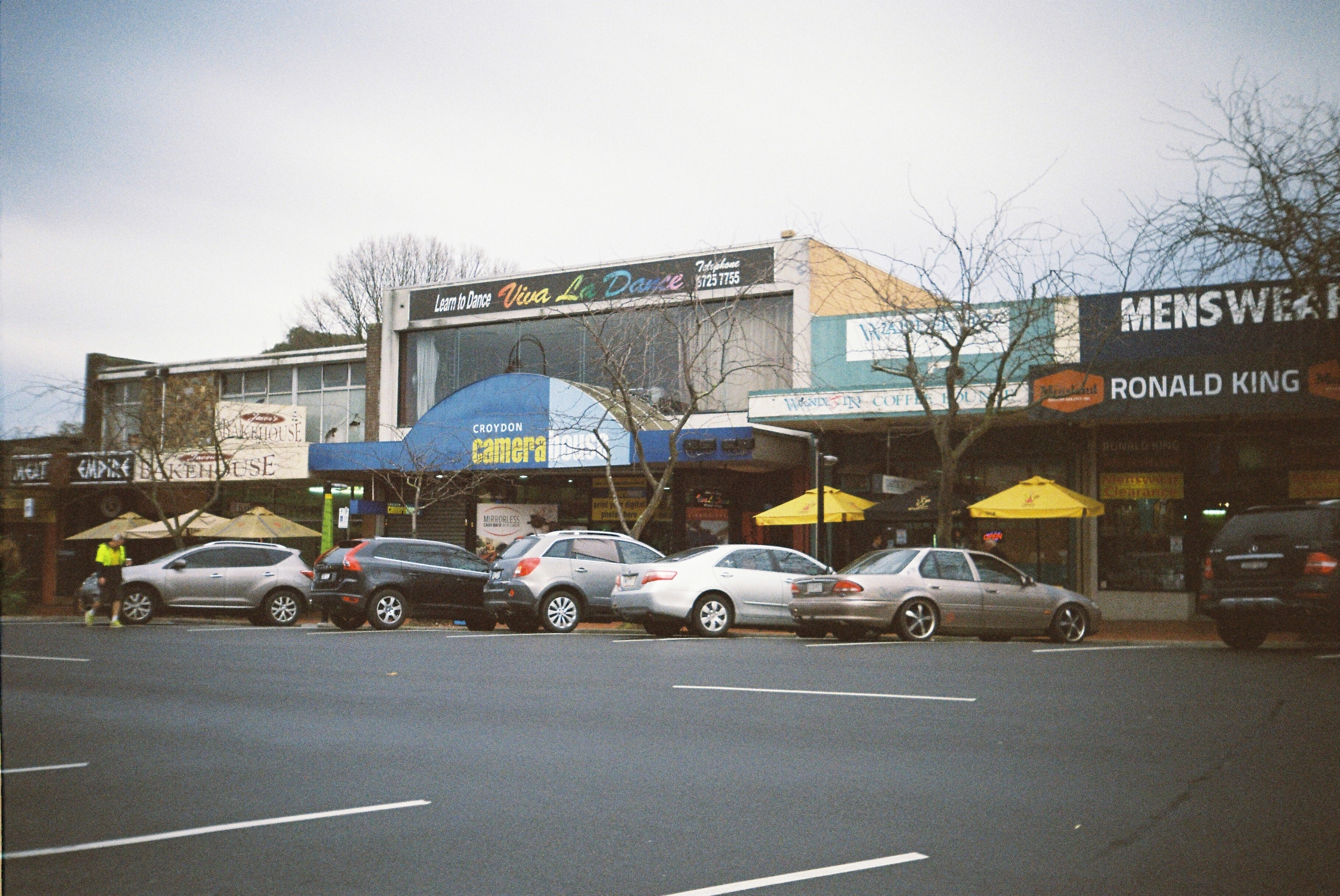 Photographed using the Hanimex 35es, and Kodak Ultramax 400 film. Taken on a dark, gloomy day in Croydon, Victoria, Australia. The early 2000s sedan looks fine, the other cars are pretty ugly.